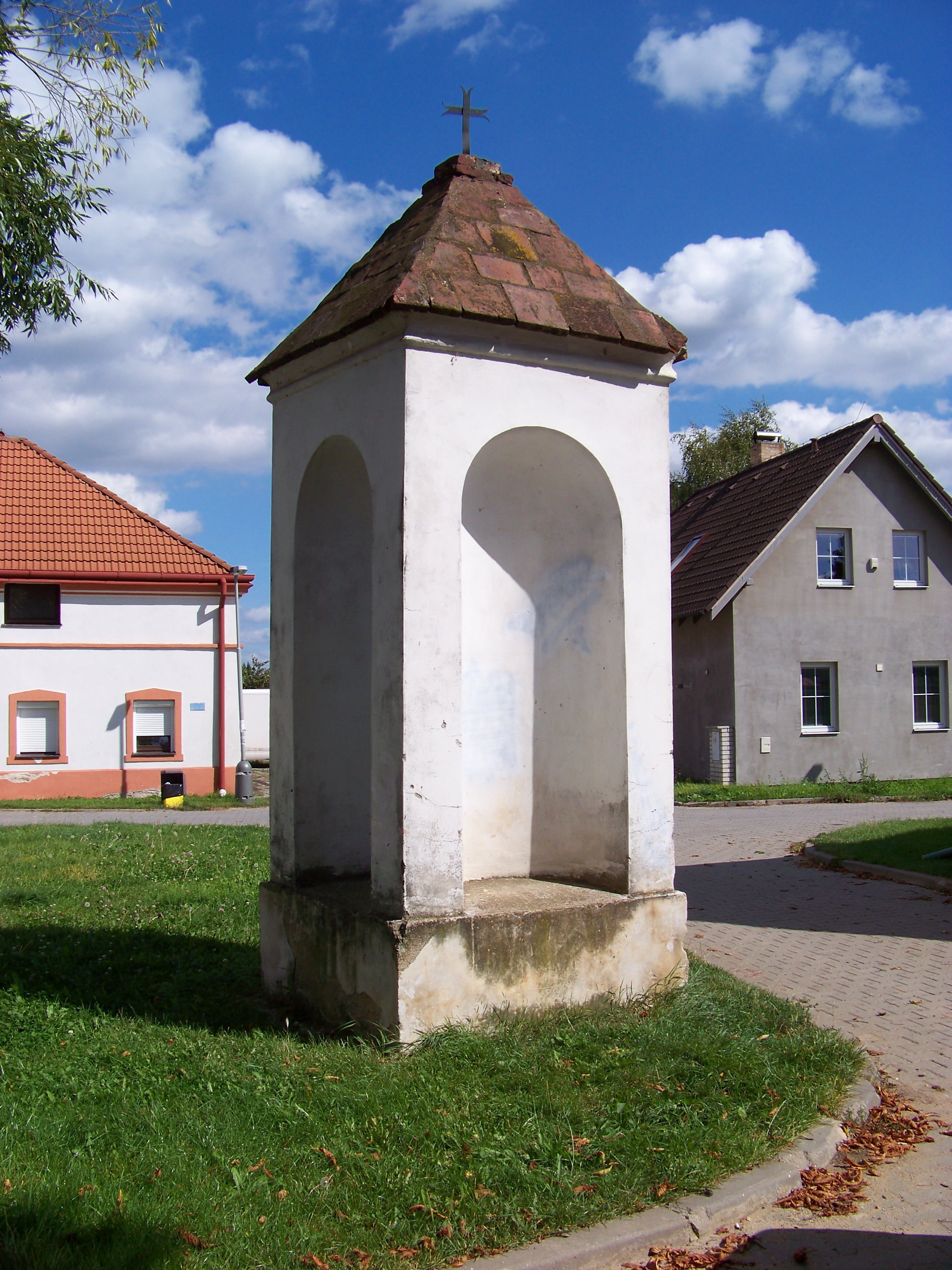 Prague-Stodůlky-Velká Ohrada, the Czech Republic. Petrbokova street, a chapel. - OpenStreetMap(Info)